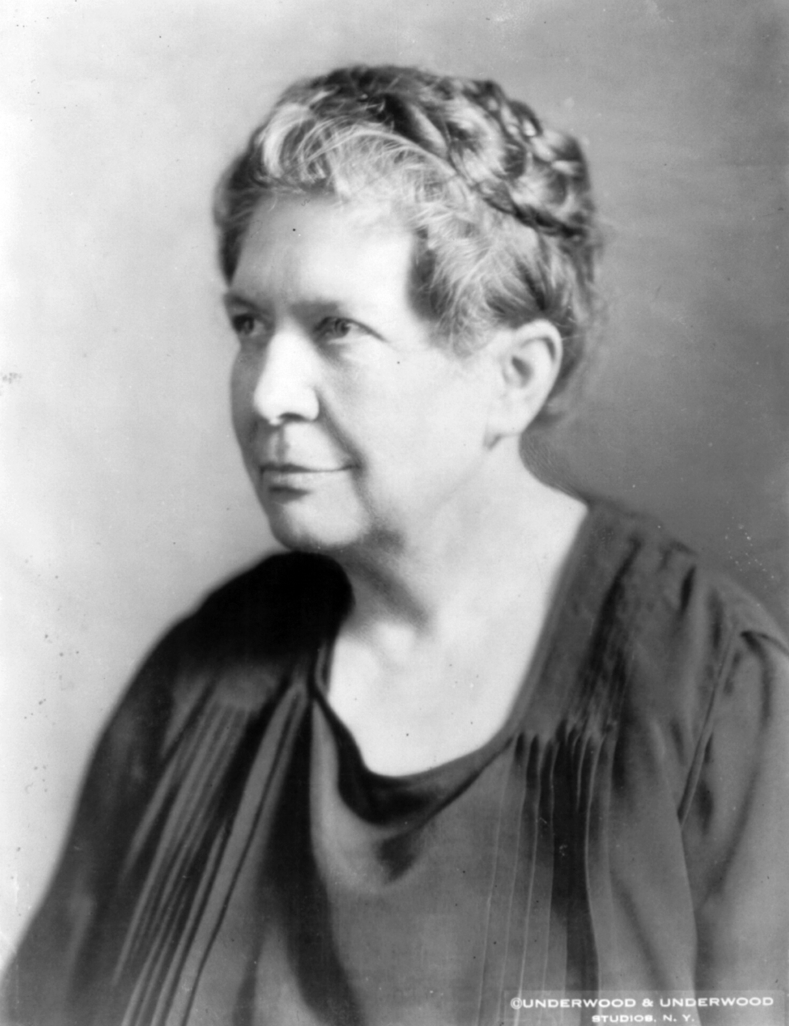 Florence Kelley, American social reformer